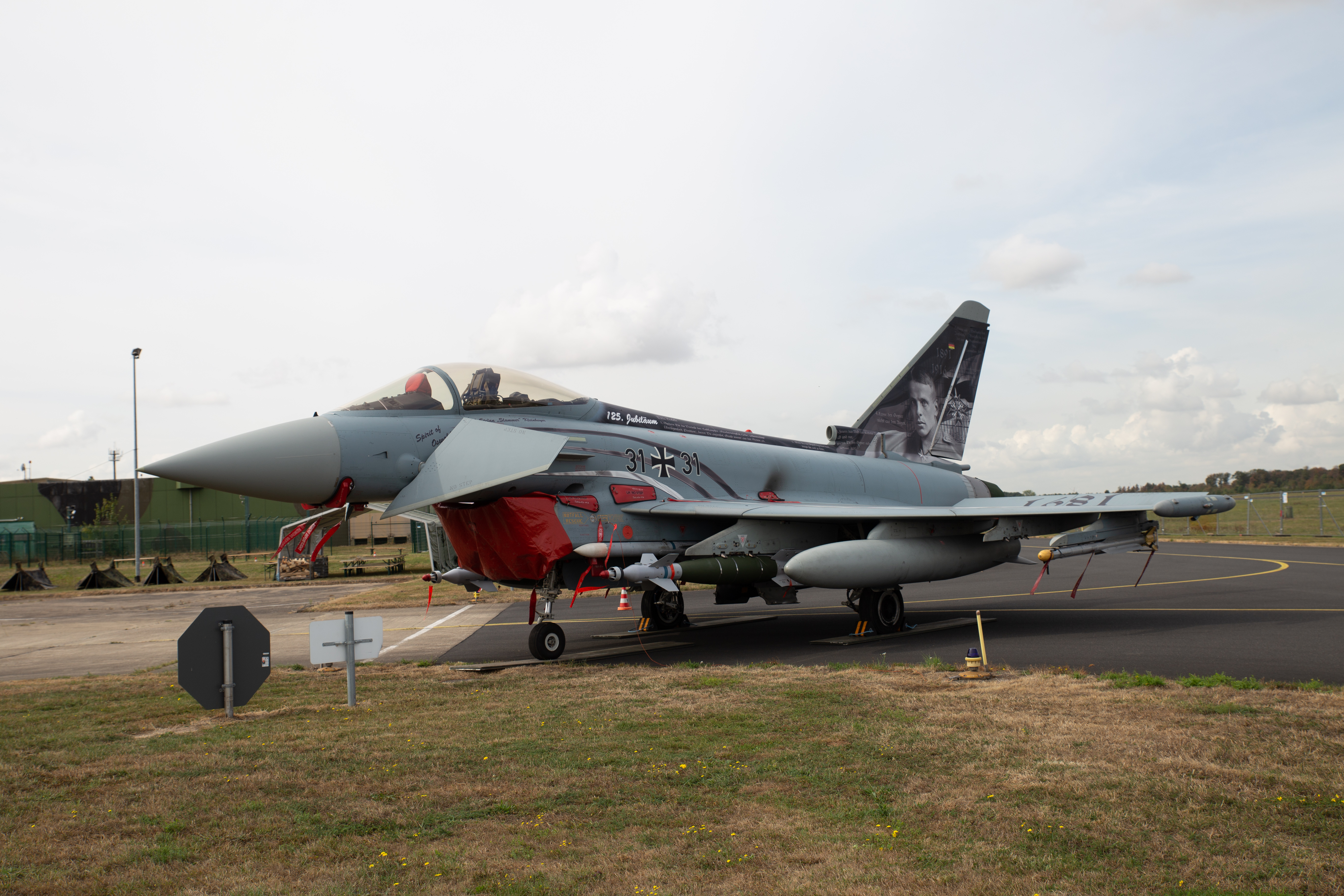 Eurofighter Typhoon Luftwaffe 31+31 "Spirit of Oswald Boelcke"